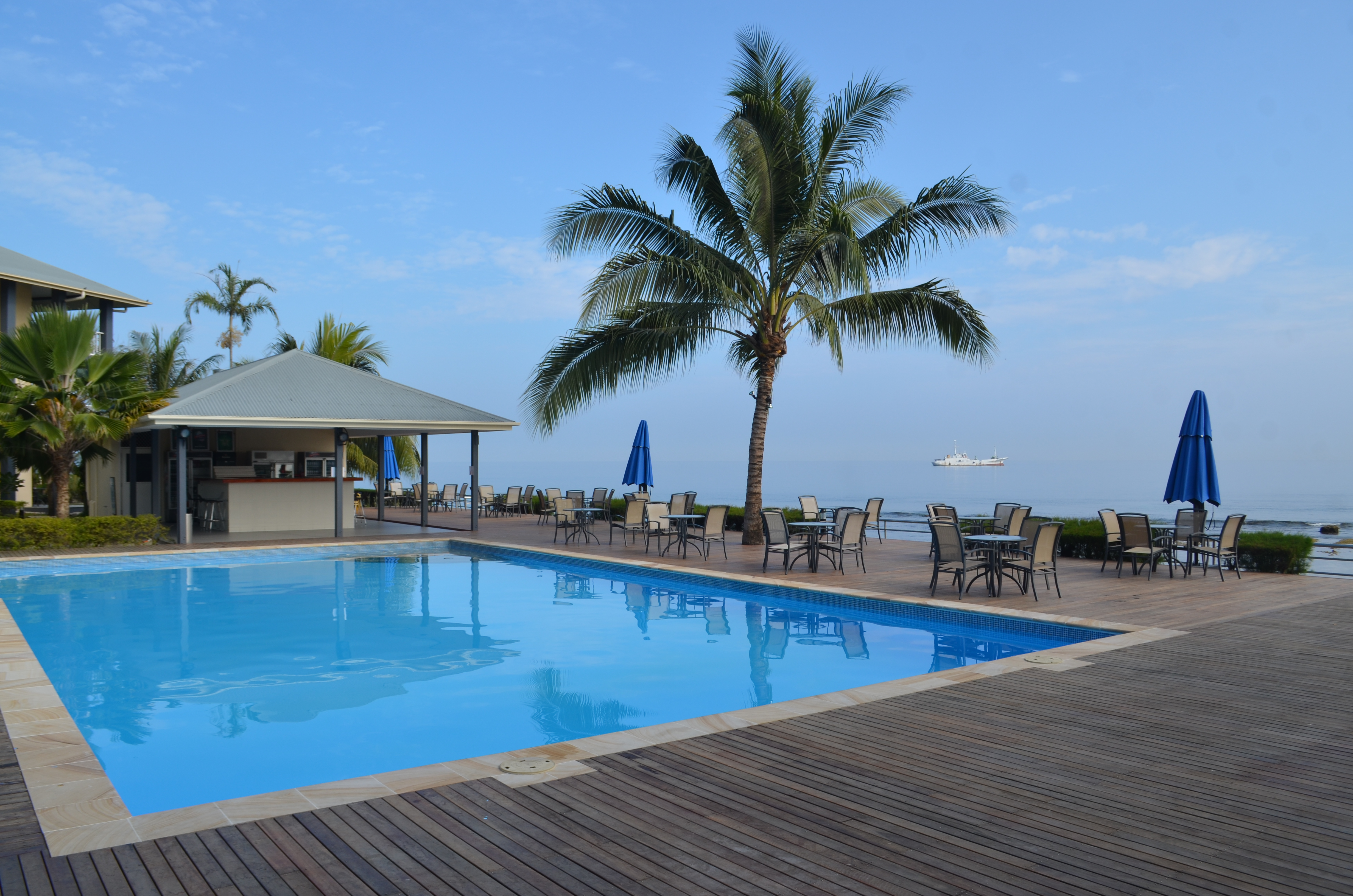 Heritage Park Hotel is the main hotel for Honiara the capital of the Solomon Islands.